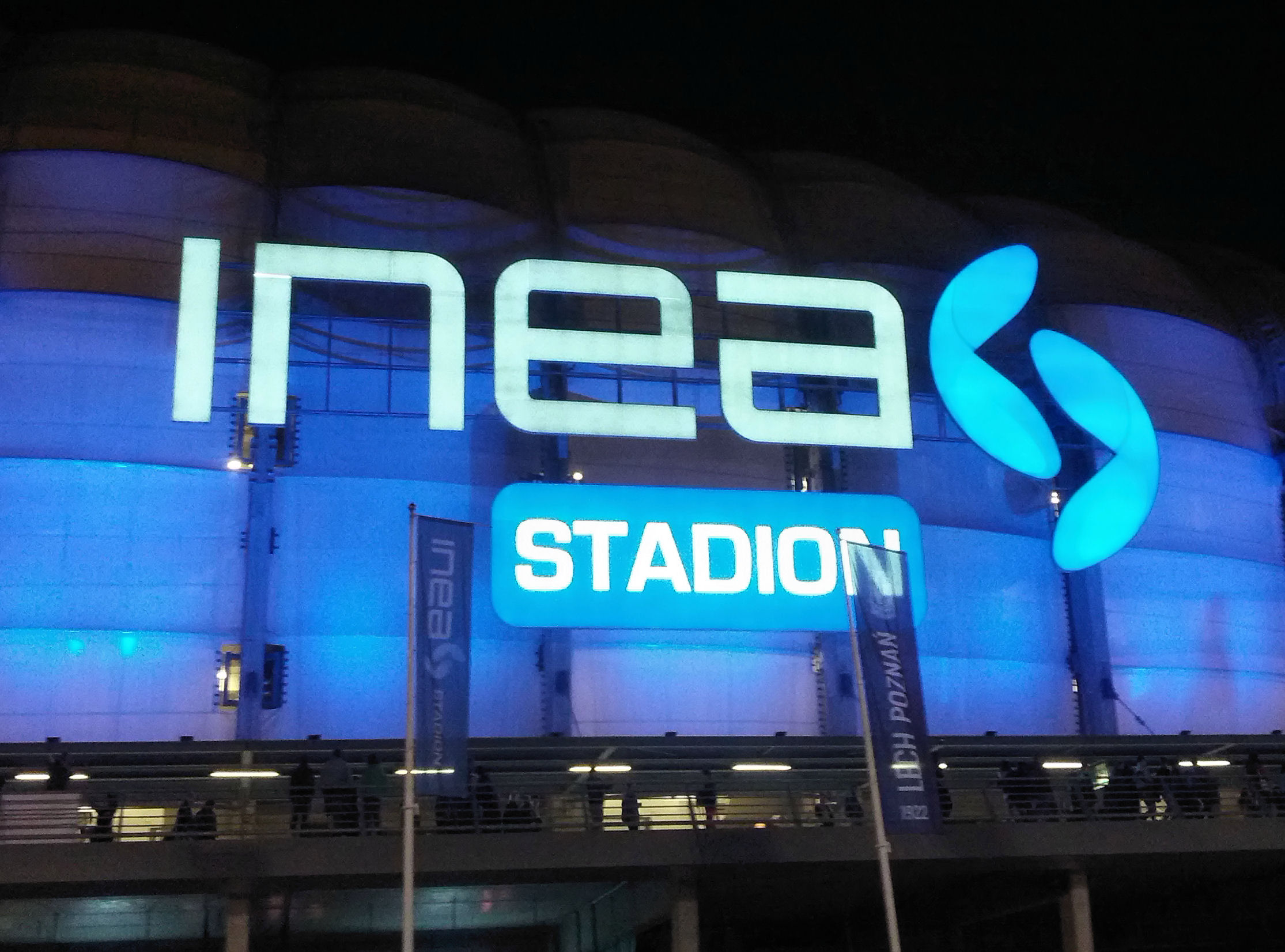 Light sign INEA Stadion, Municipal Stadium, Poznań, Polska